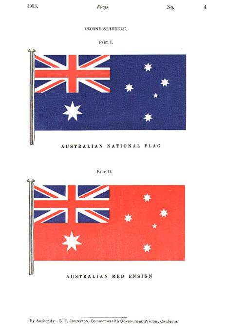 A page from the Flags Act 1953, from the Collection of the National Archive of Australia.